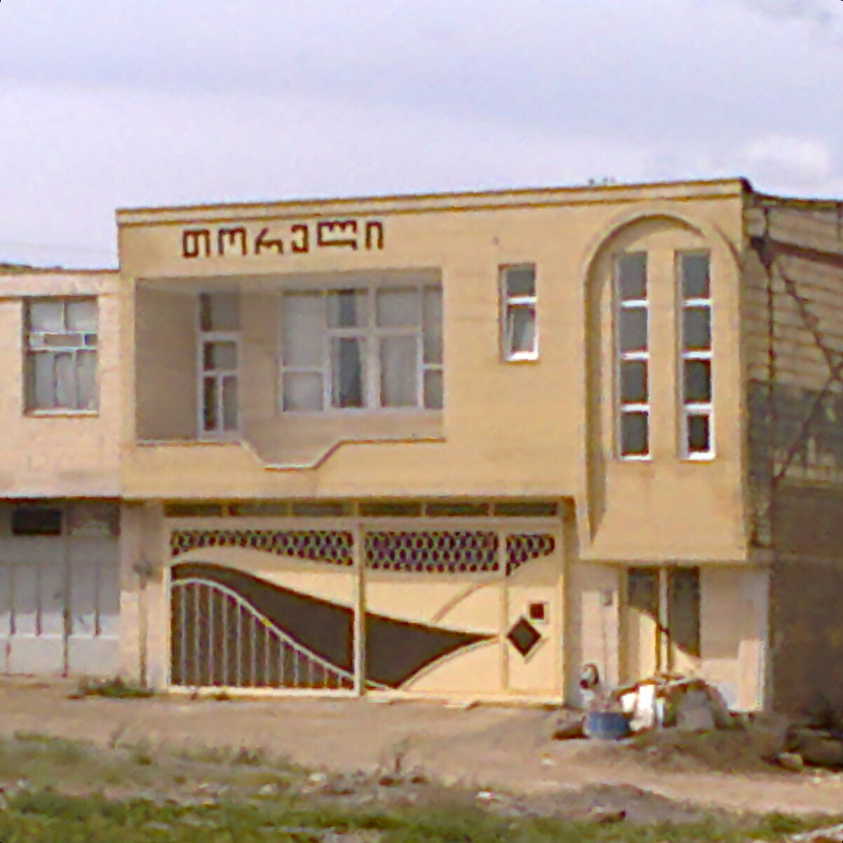 The Native Name of Miandasht